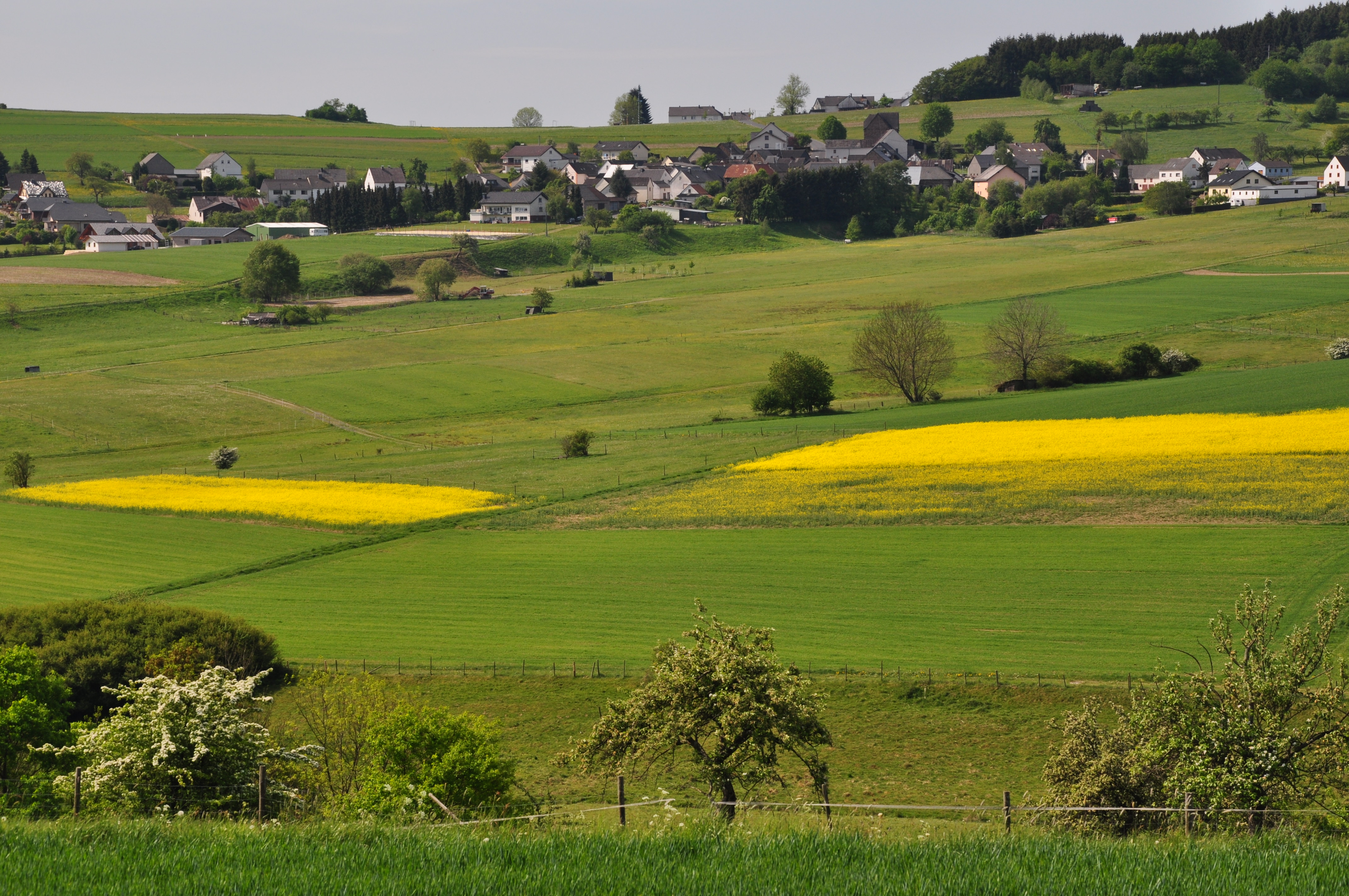 The village of Kolverath seen from Bereborn (Kelberg Municipality, District Vulkaneifel, Rhineland-Palatinate, Germany).